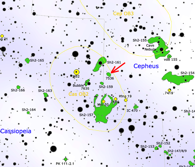 Map of Cassiopeia OB2 and evidenced NGC 7538